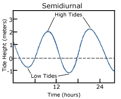 Semidiurnal tide